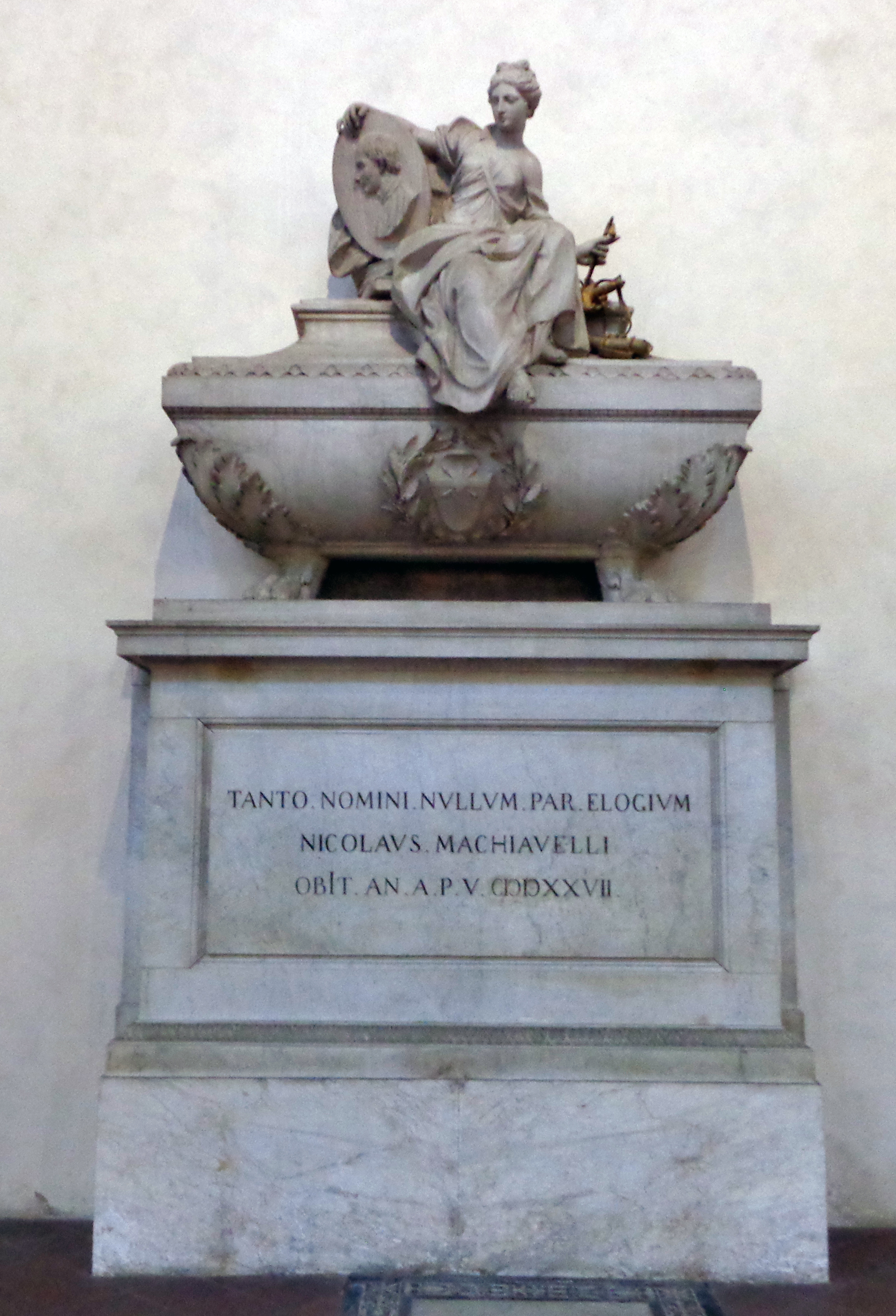 The tomb of Niccolò Machiavelli